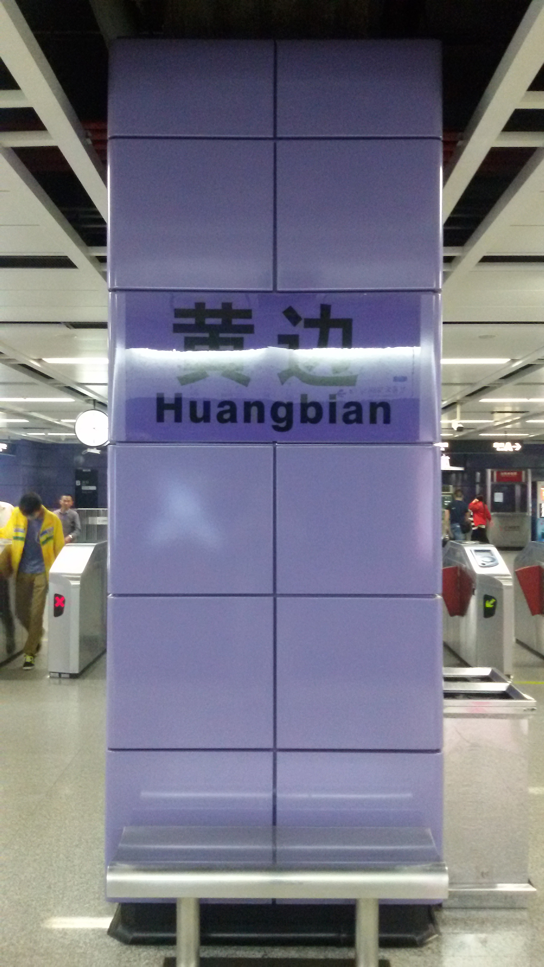 WORD on PILLAR for Huangbian Station in Guangzhou Metro 粵語: 廣州地鐵，黃邊站嘅柱上面啲字。